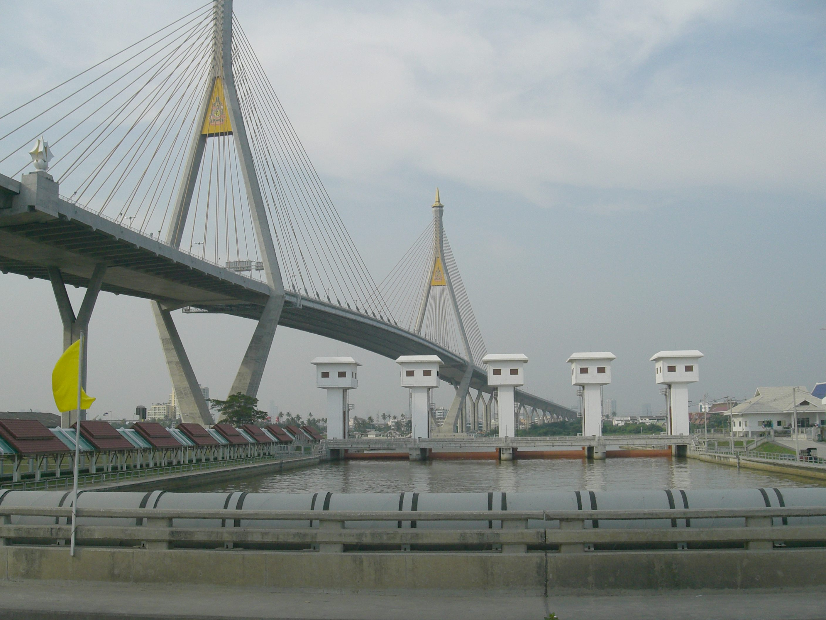 Mega Bridge over Chao Phraya in Phra Pradaeng, Thailand